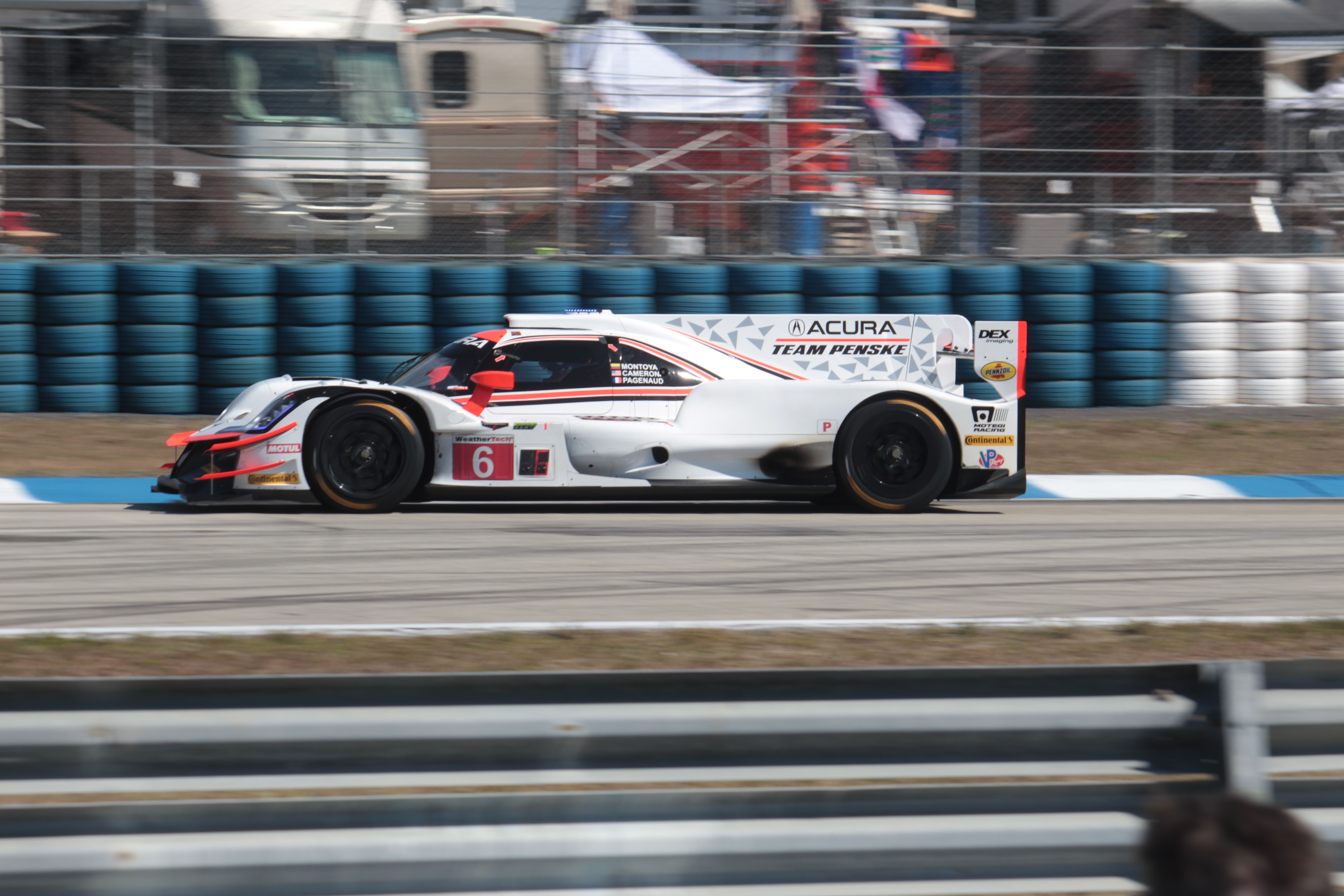 2018 12 Hours of Sebring, Acura ARX-05 n°6 driven by Dane Cameron, Juan Pablo Montoya and Simon Pagenaud